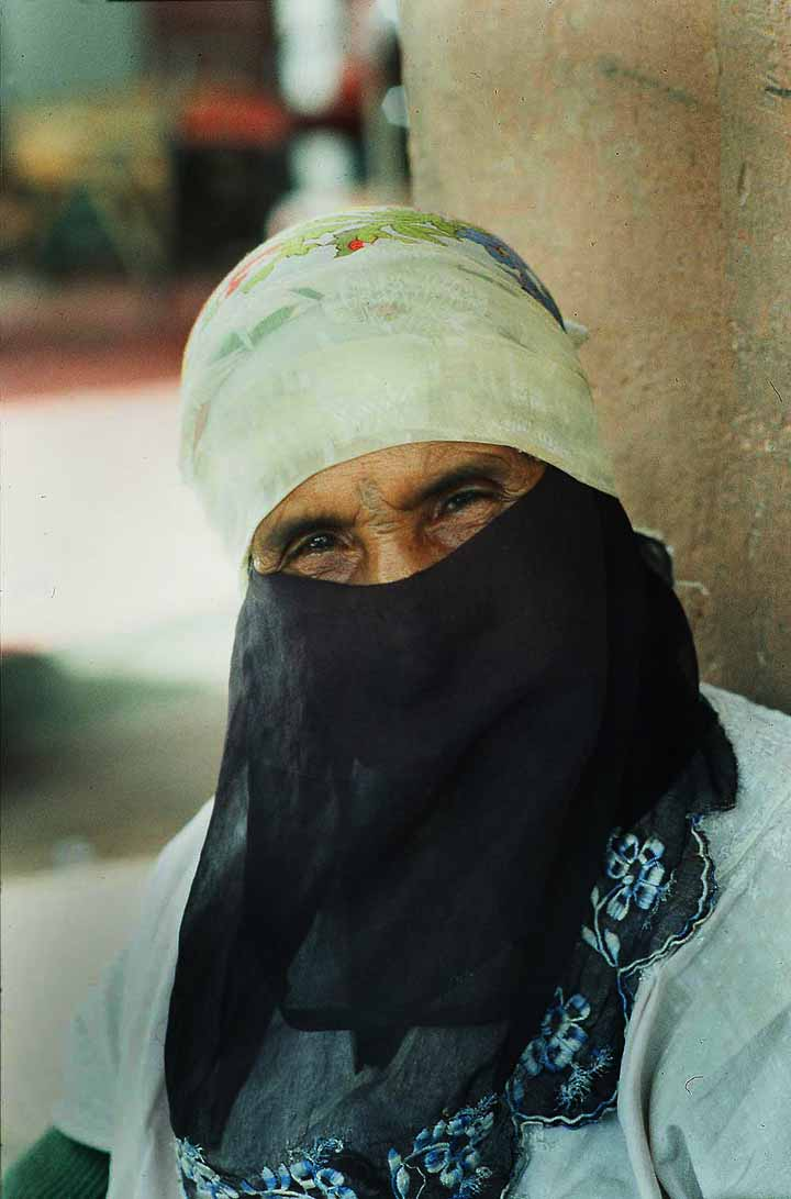 Woman (?) with traditional veil in Marrakesh (Morocco).Morocco n002